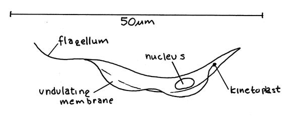 morphology of Trypanosomes